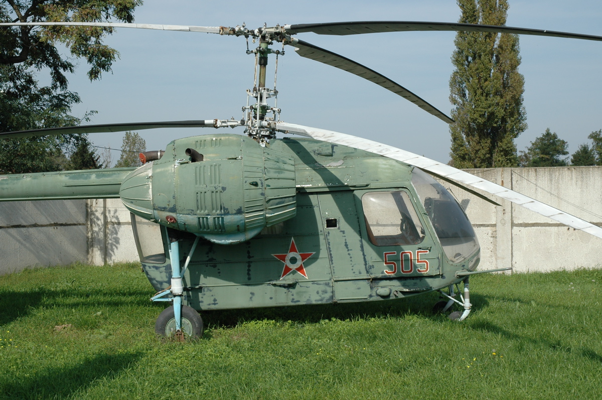 Kamov Ka-26 helicopter (displayed at Hungarian Aviation Museum, Szolnok)